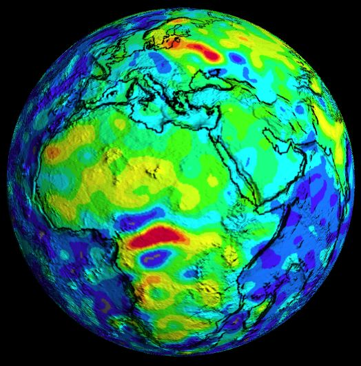 "A model of the magnetization of the earth's crust, based on measurements of the magnetic field made by NASA satellites Magsat, OGO-2, OGO-4, and OGO-6. This model was also designed to be consistent with other information on the magnetic properties of the earth's crust, such as the contrast in magnetic properties between oceanic and continental crust. Information on the thickness and temperature of the igneous crust is also included in this model. Warm colors (reds) indicate the strongest magnetizations while cool colors (blues) the weakest." from the NASA page